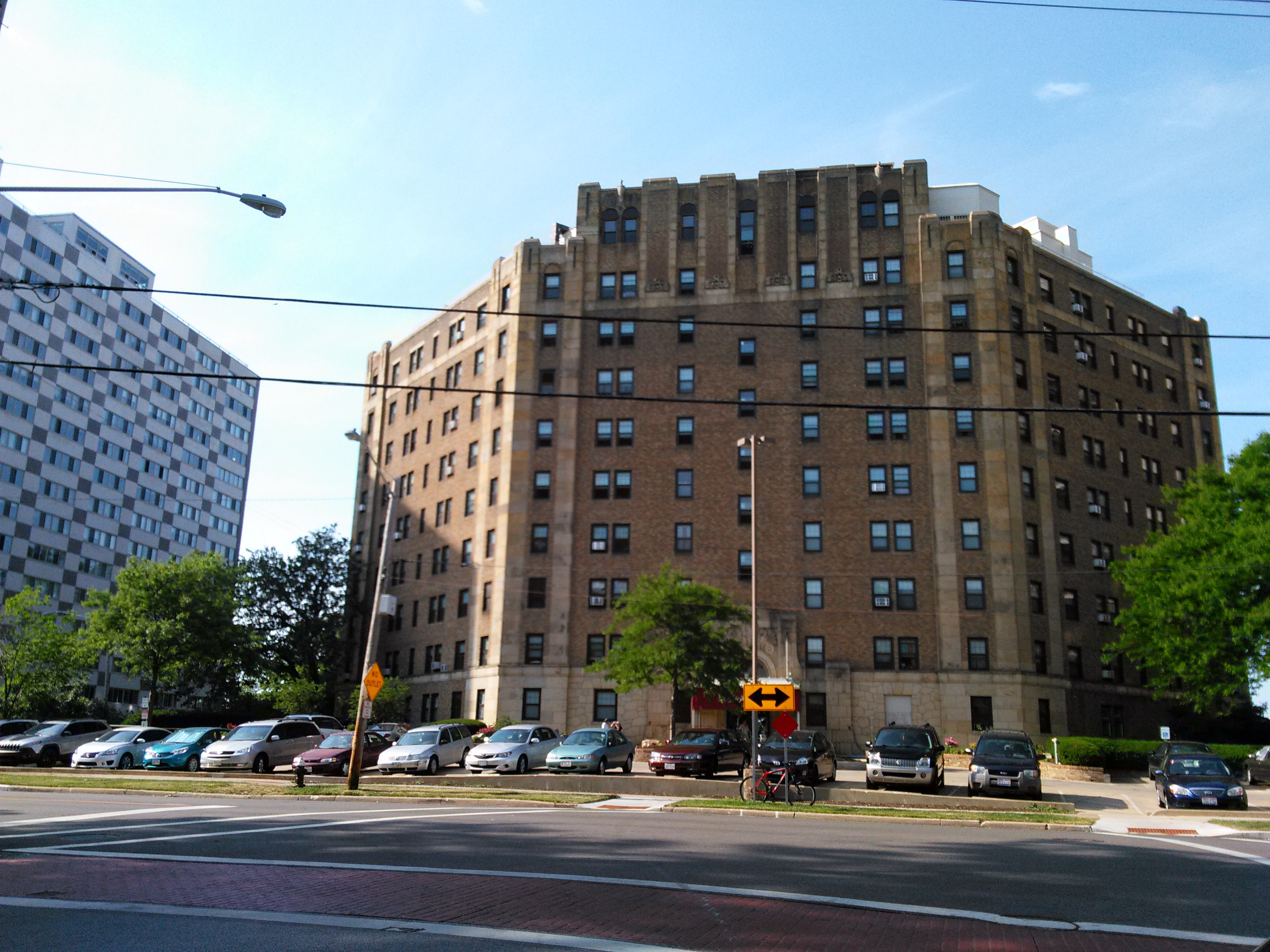 Lake Shore Towers Condominium in Lakewood, OH